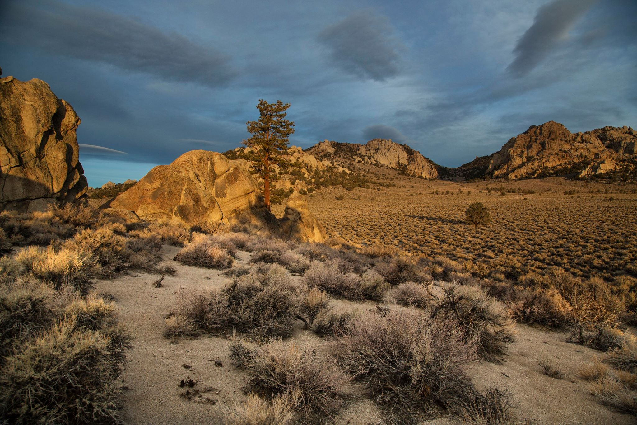 Granite Mountain Wilderness. Photo by Bob Wick, BLM